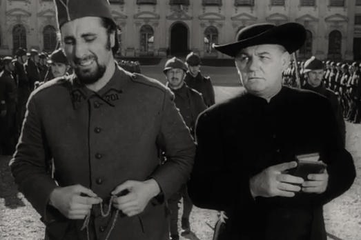 Timothy Carey (left) & Emile Meyer in Paths of Glory - trailer (cropped screenshot)